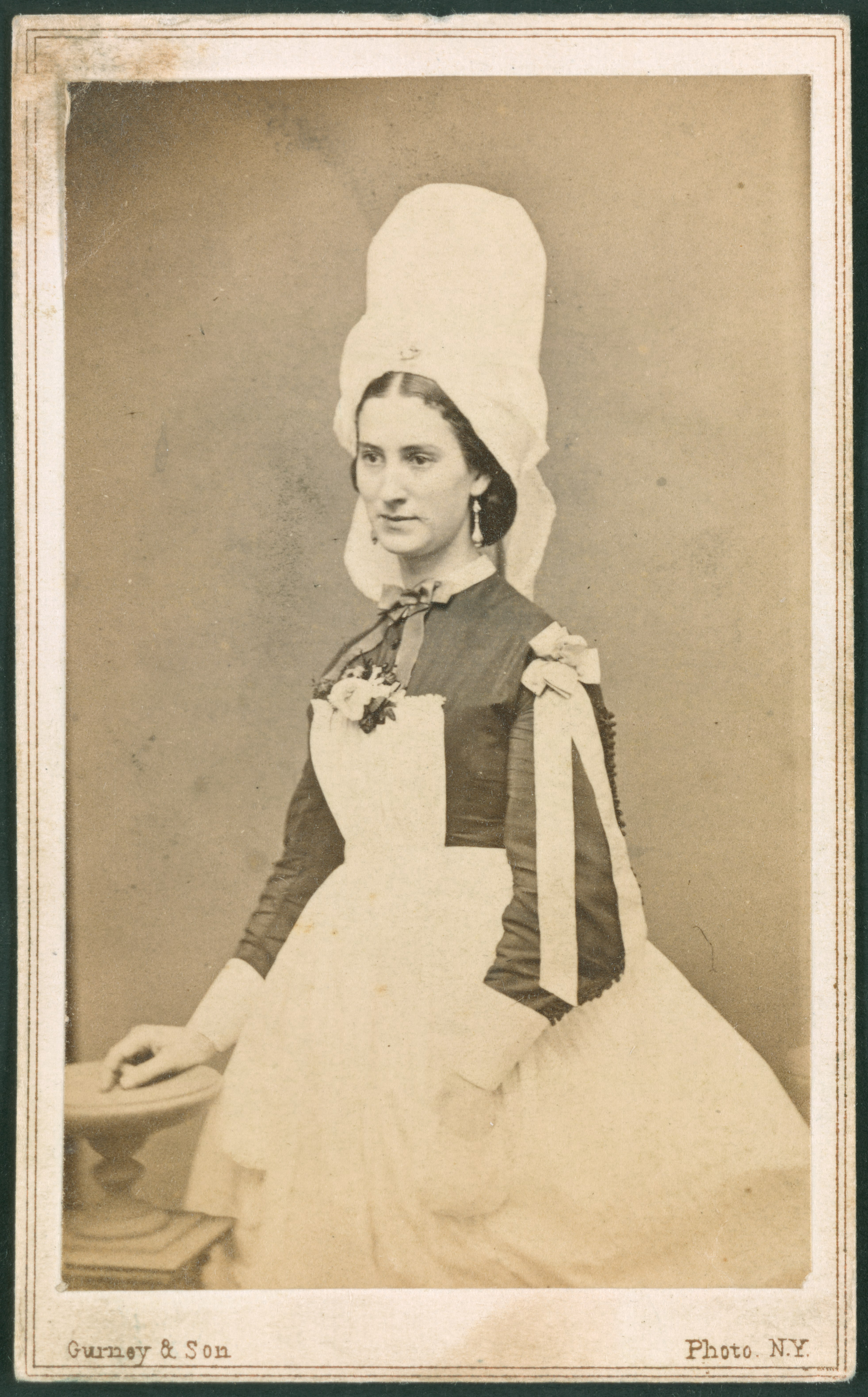 Title: Costume of ladies' at the Normandy stand, Metropolitan Fair, April 1864 / Gurney & Son. Abstract/medium: 1 photographic print on carte de visite mount : albumen ; 10.2 x 6.3 cm.